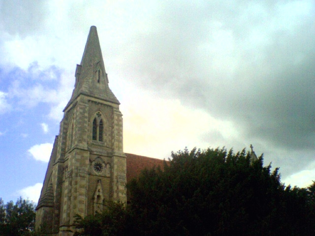 Photograph of St. John's church in Marchwood.